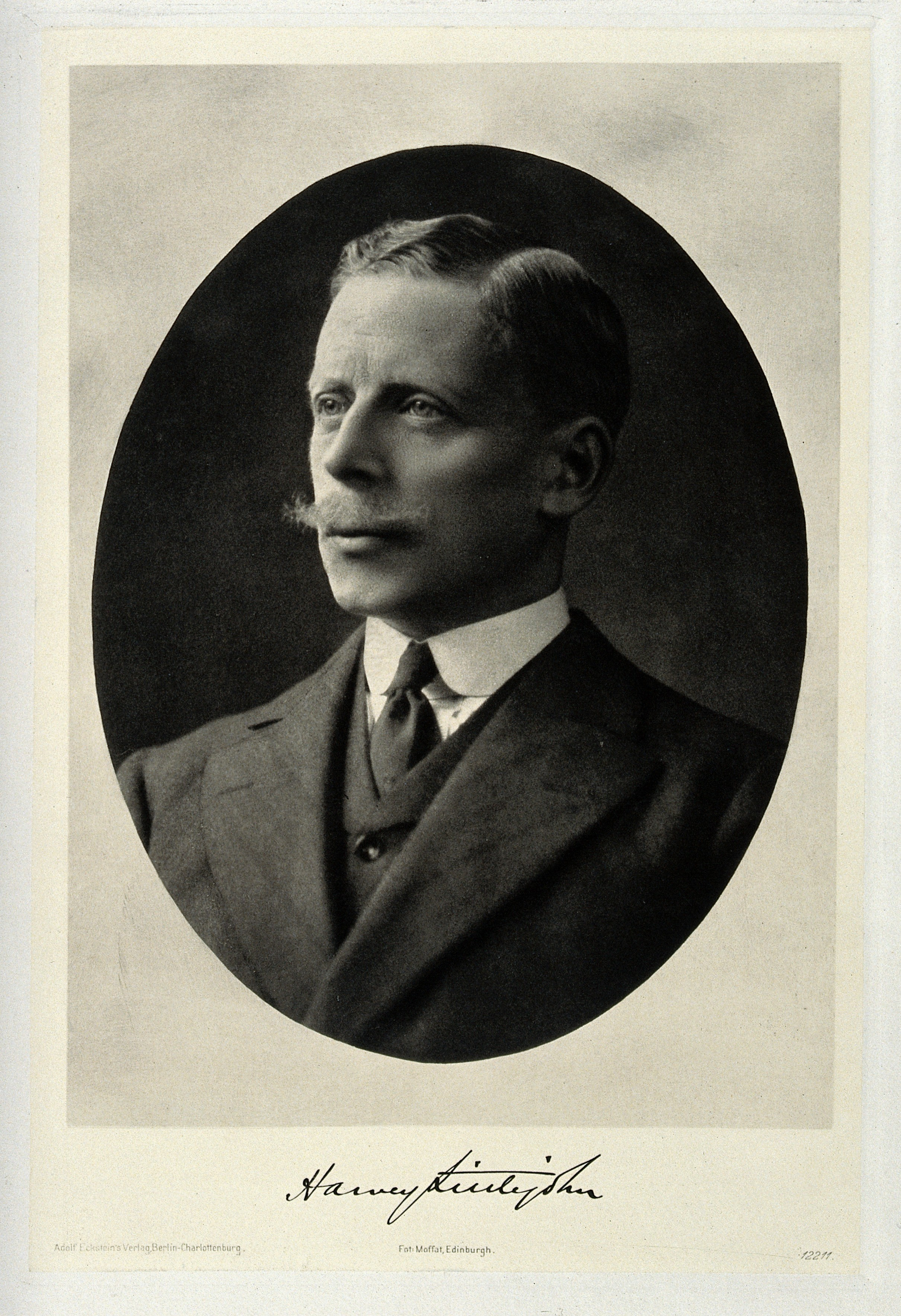 Harvey Littlejohn. Photogravure by Moffat. Iconographic Collections Keywords: portrait prints